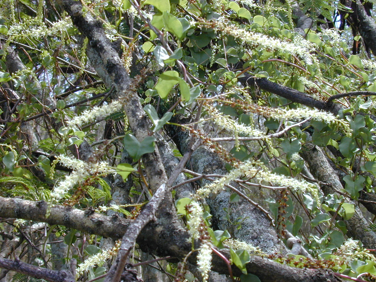 Anredera cordifolia (flowers). Location: Maui, HPoko